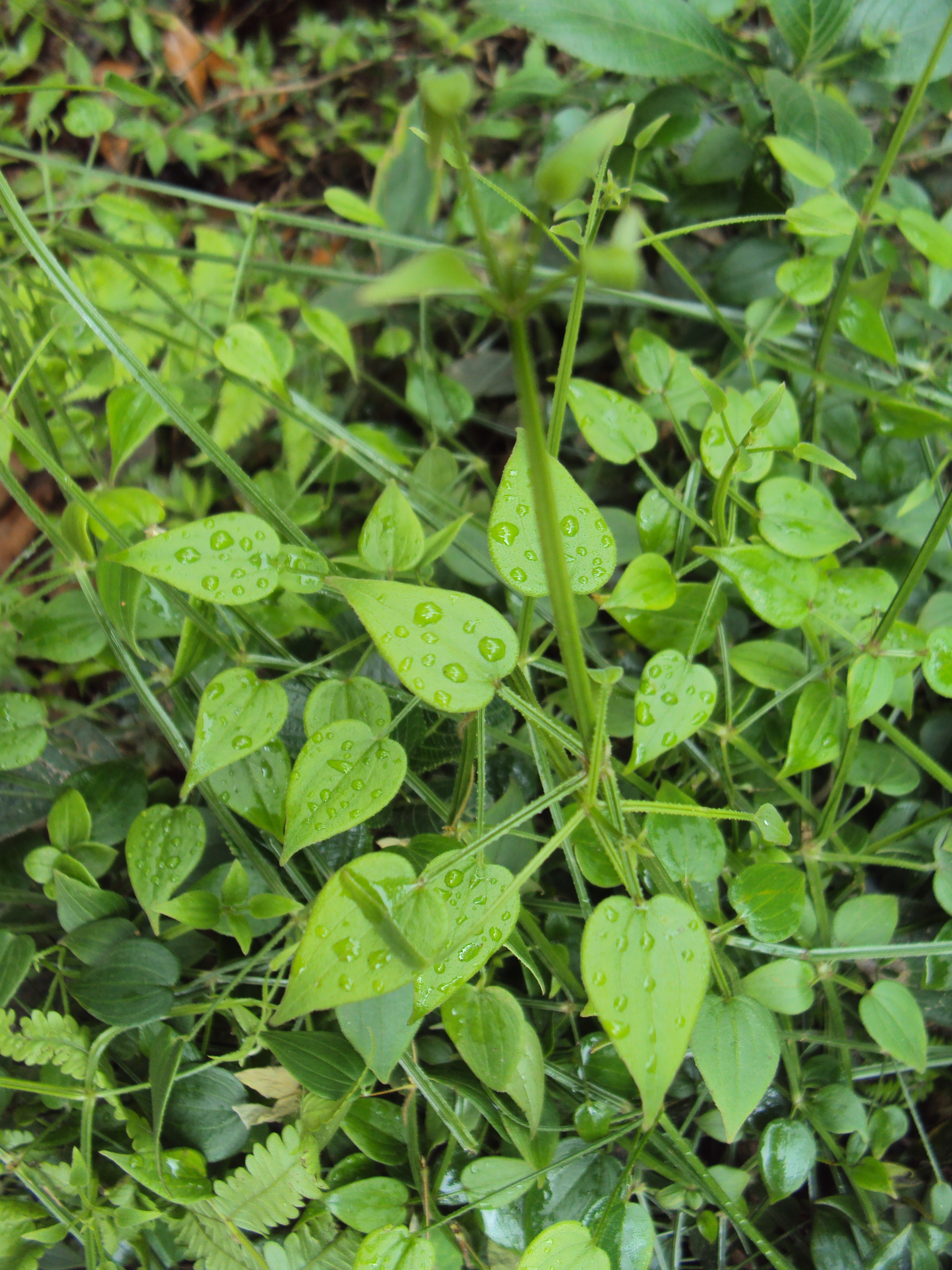 Rubia cordifolia